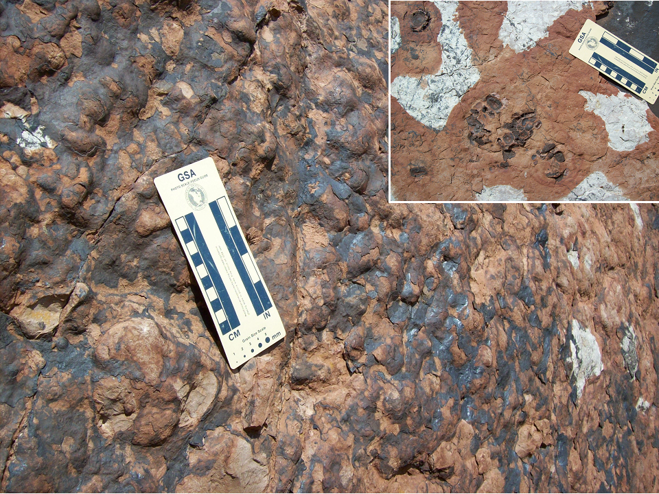 Ammonitico Rosso facies (Late-early Jurassic) from northern Lombardy (Italy-Southern Calcareous Alps). example of iron/manganese crusts and nodules in a condensed section.